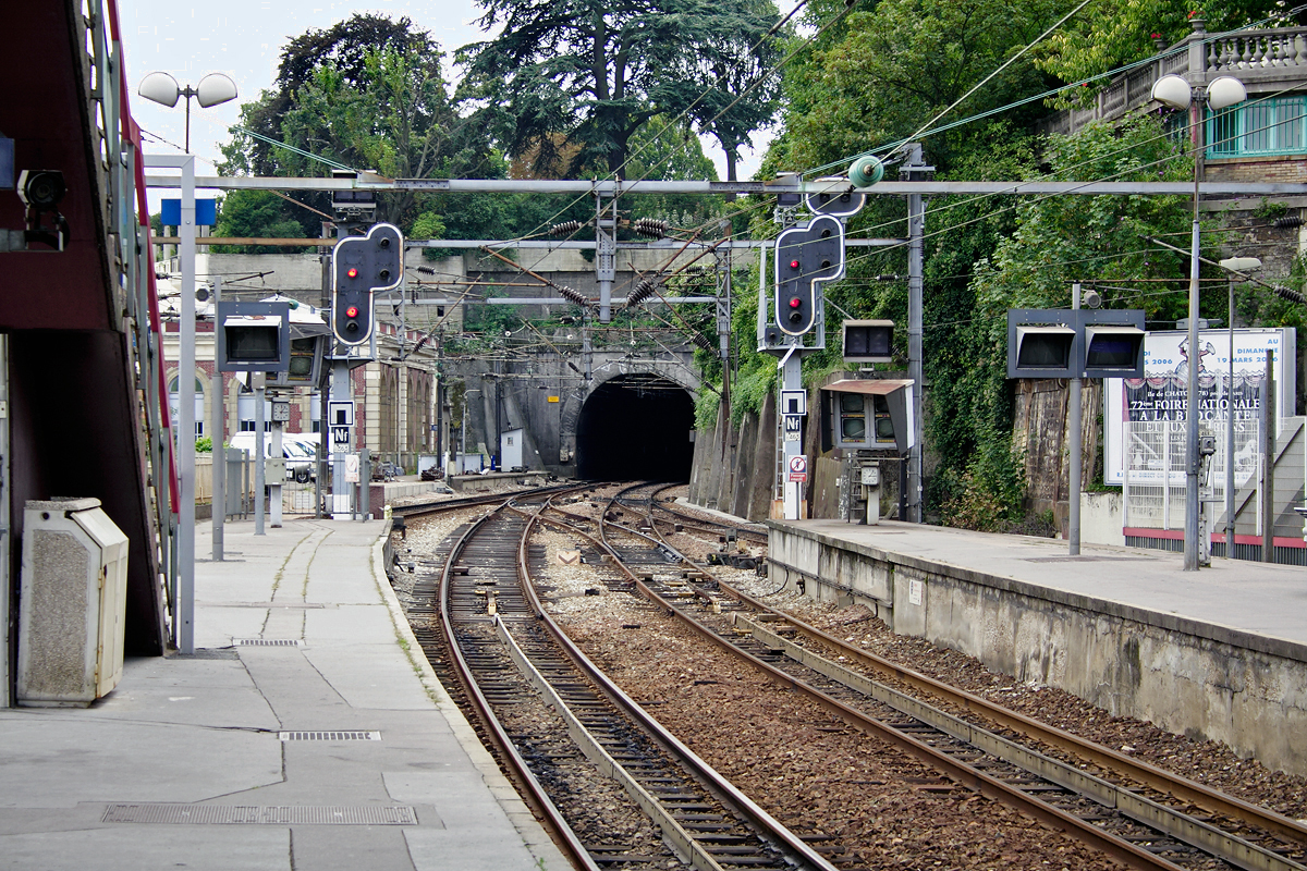 Saint-Cloud french railway station